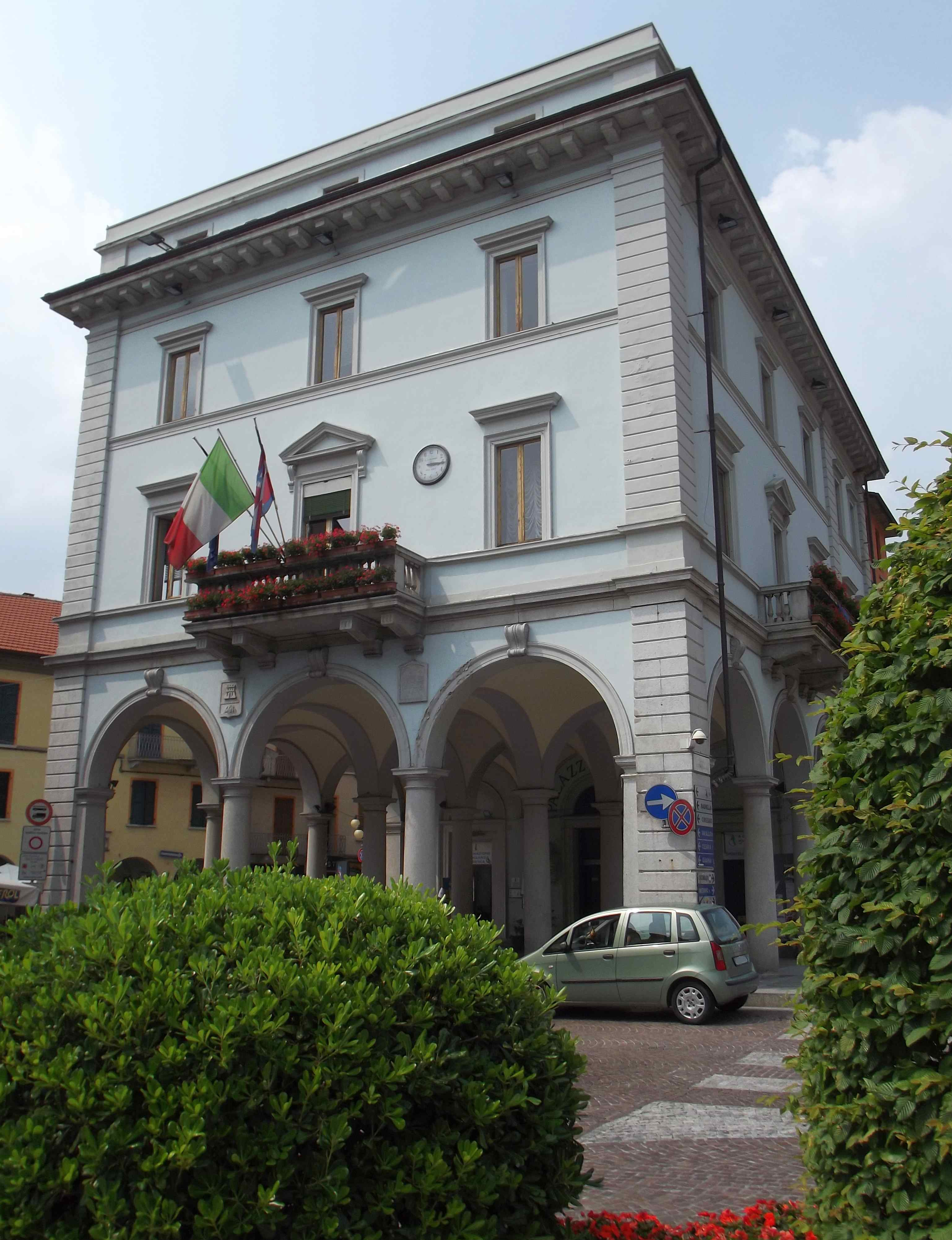 Omegna (VB, Italy): town hall